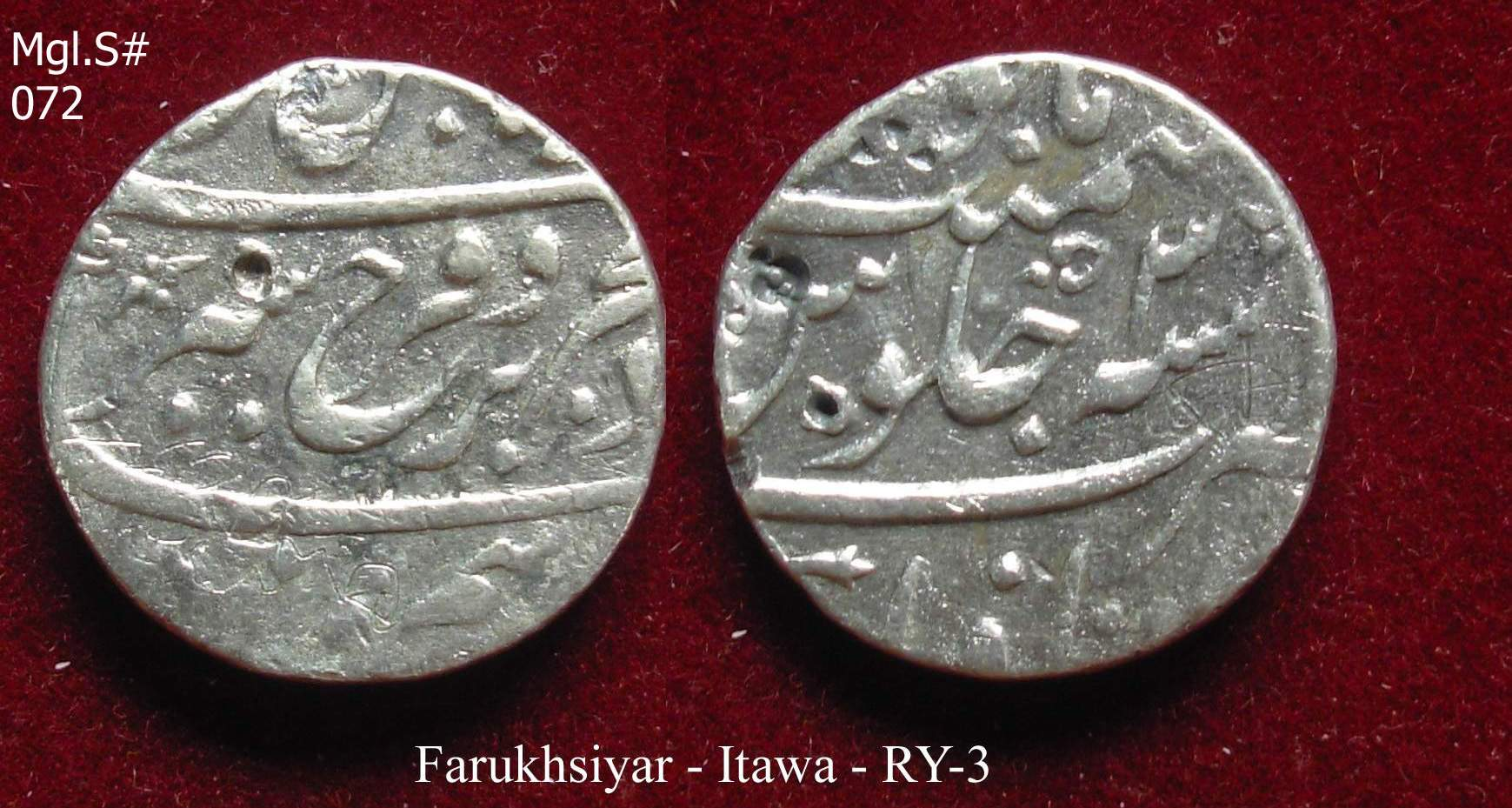 Silver rupee of Farrukhsiyar, issue from Etawah (Itawah); from my cabinet